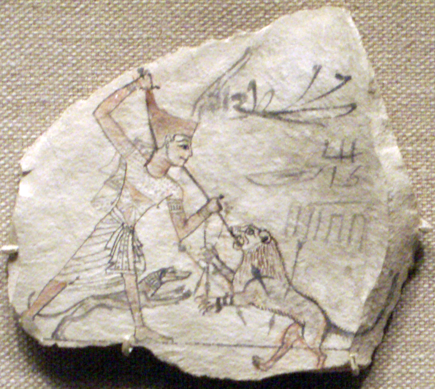 Ostracon from the Ramesside period, dynasties 19-20. From Thebes.